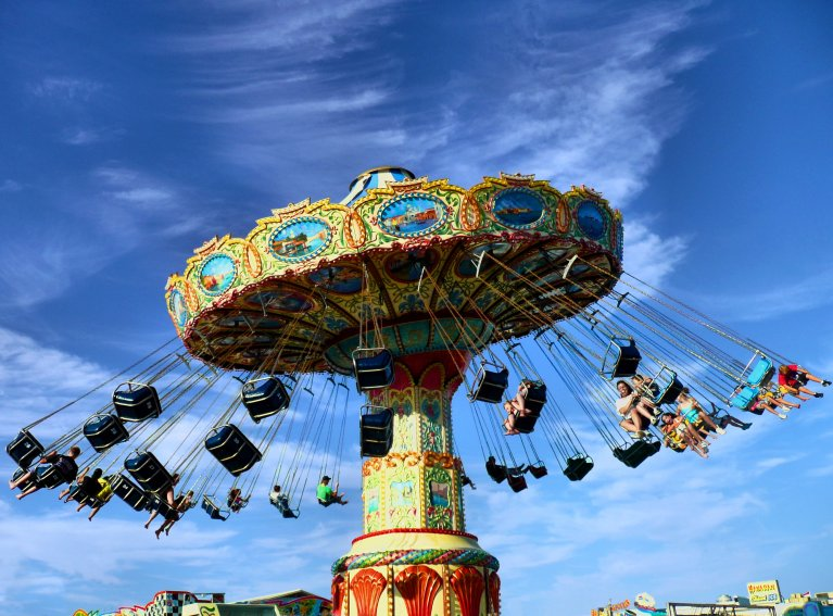 Impossible for me to walk past this without taking yet another foto. Point Pleasant, NJ.